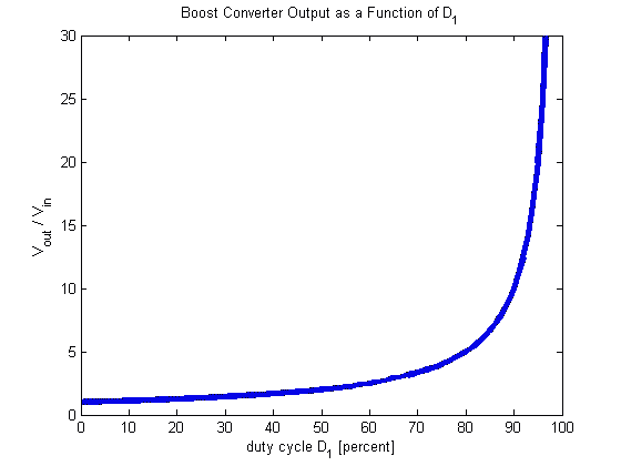 Normalized Boost Converter output as a function of duty cycle